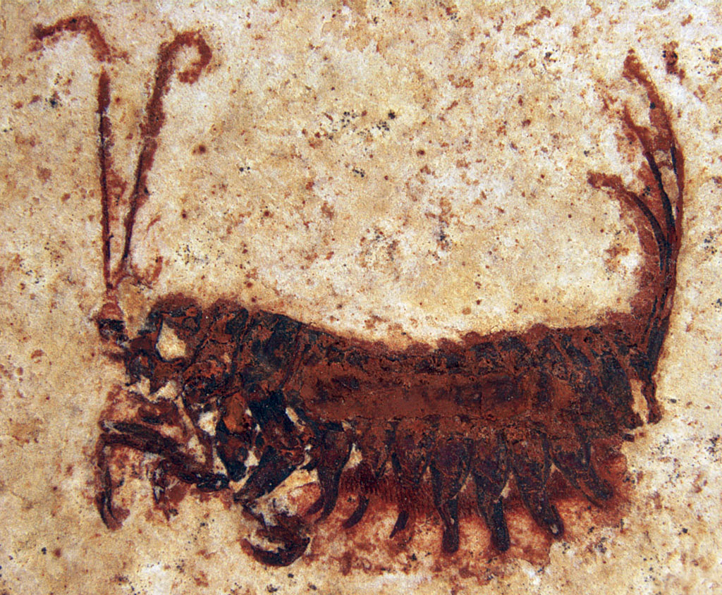 Mickoleitia spec. Staniczek, Bechly & Godunko, 2011 (Coxoplectoptera: Mickoleitiidae); larva; body length 12.8 mm